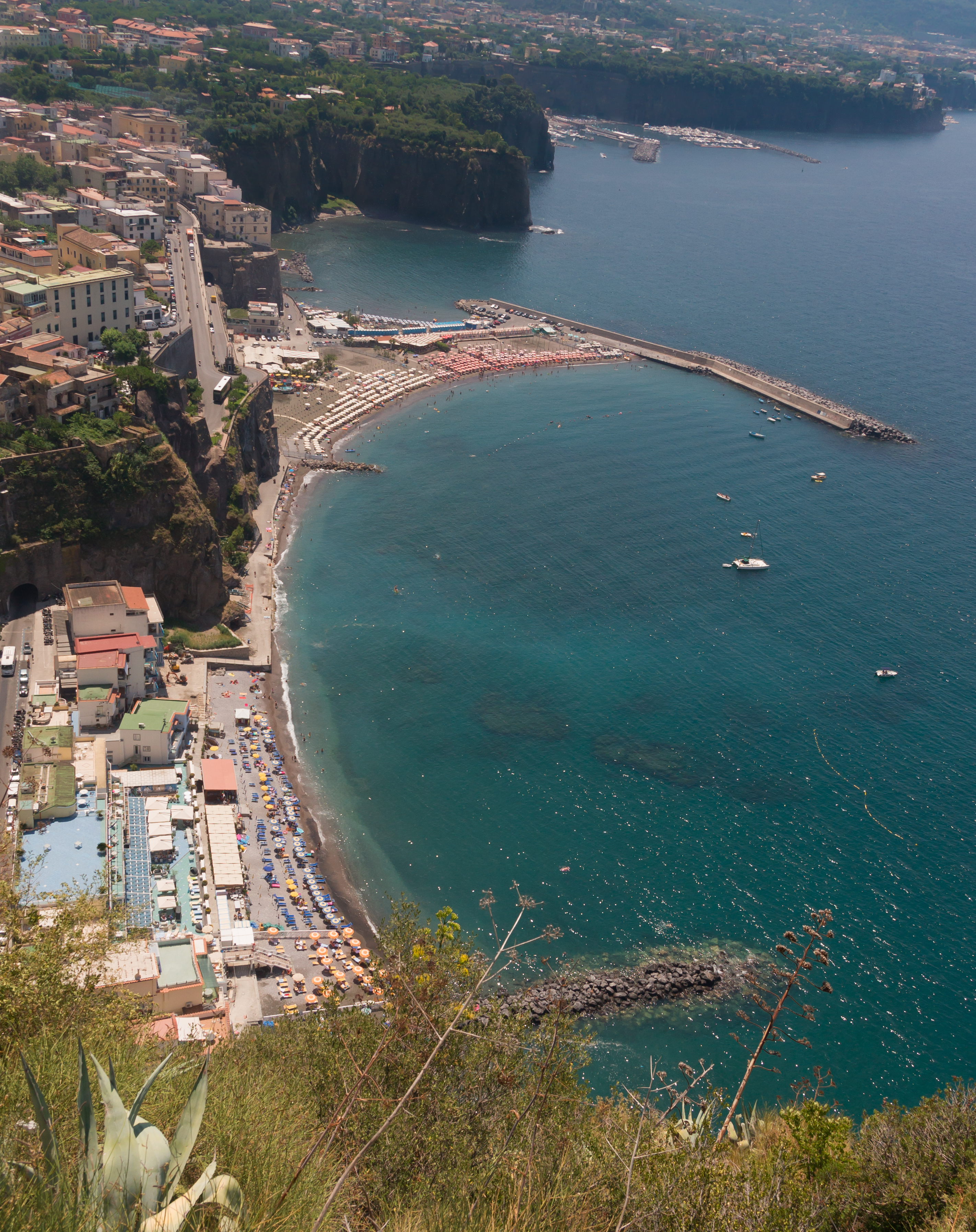 The coastline, Sant'Agnello, gulf of Naples, Italy.